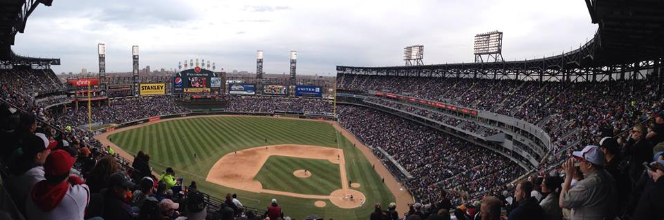 2014 Opening Day Pano